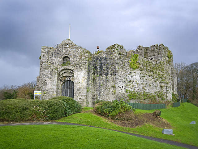 Oystermouth Castle